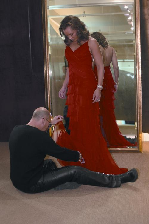 Institute: Office of Director (OD) Description: A designer conducts a final fitting of his red dress creation with Vanessa Williams at his studio. Williams joined other celebrities, models, and designers to the women's heart disease awareness for "The Heart Truth's" Red Dress Collection 2004.